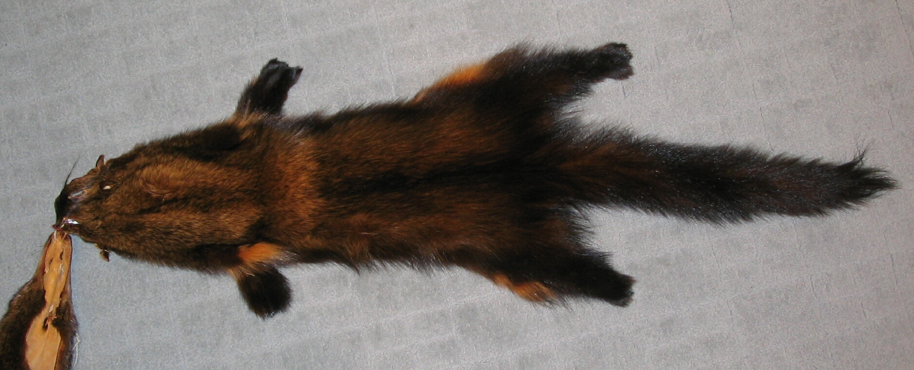 Fisher Fur skin (Martes pennanti), dyed.